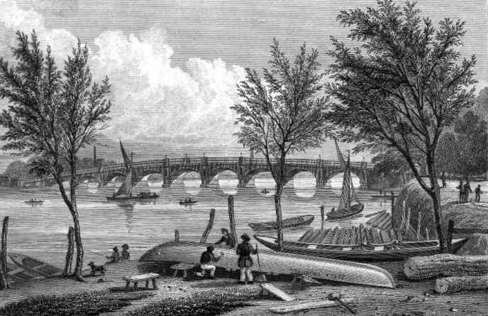 View from Mill Bank, London: Vauxhall Bridge spans the River Thames, on which bank a group of men is building boats